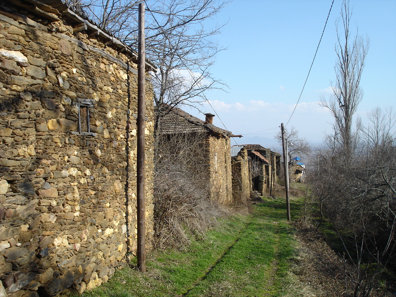 village of Margari,Dolneni Municipality, Macedonia